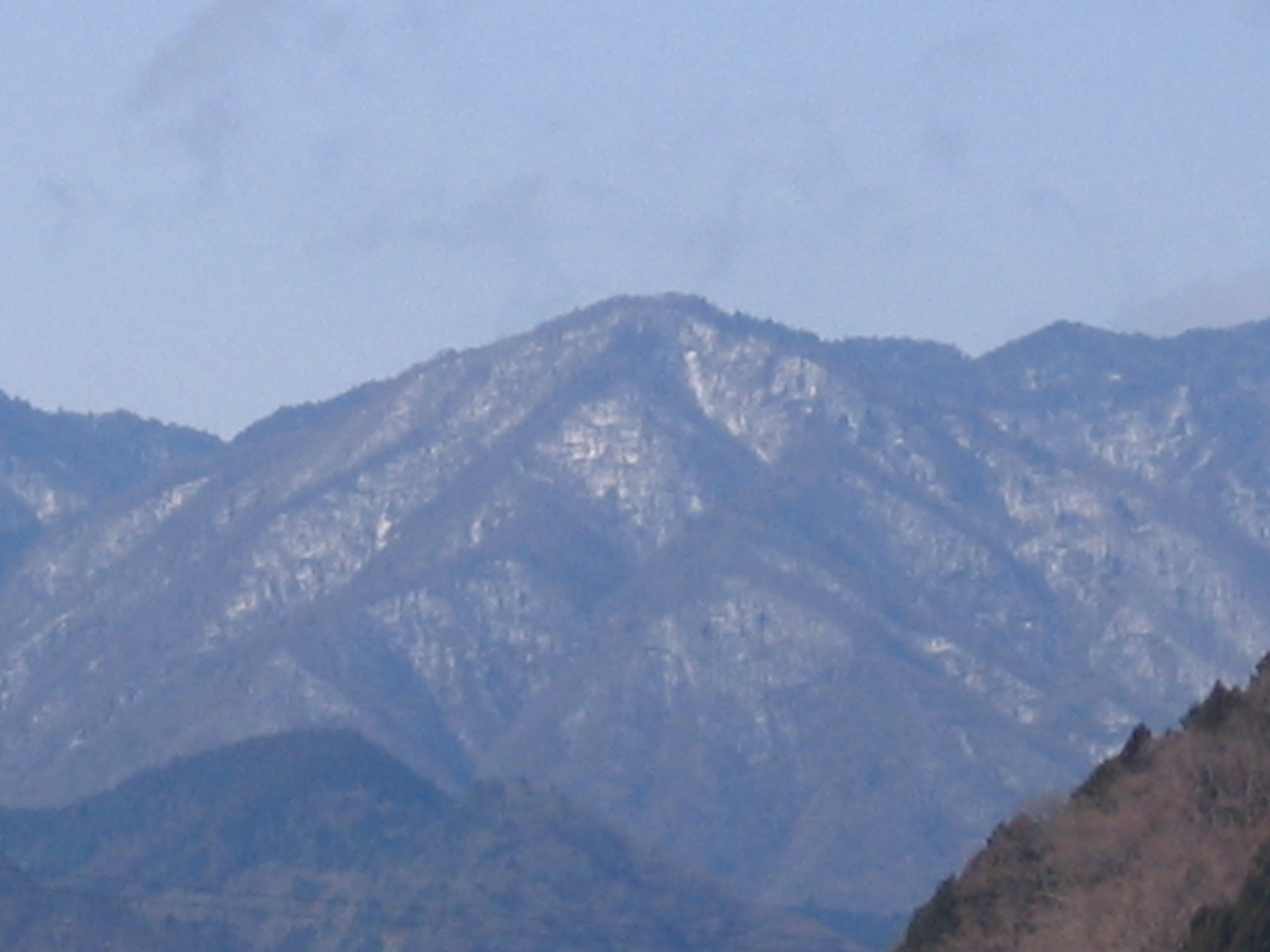 Mt.Hannokimaru, Mts.Tanzawa, Kanagawa, Japan.